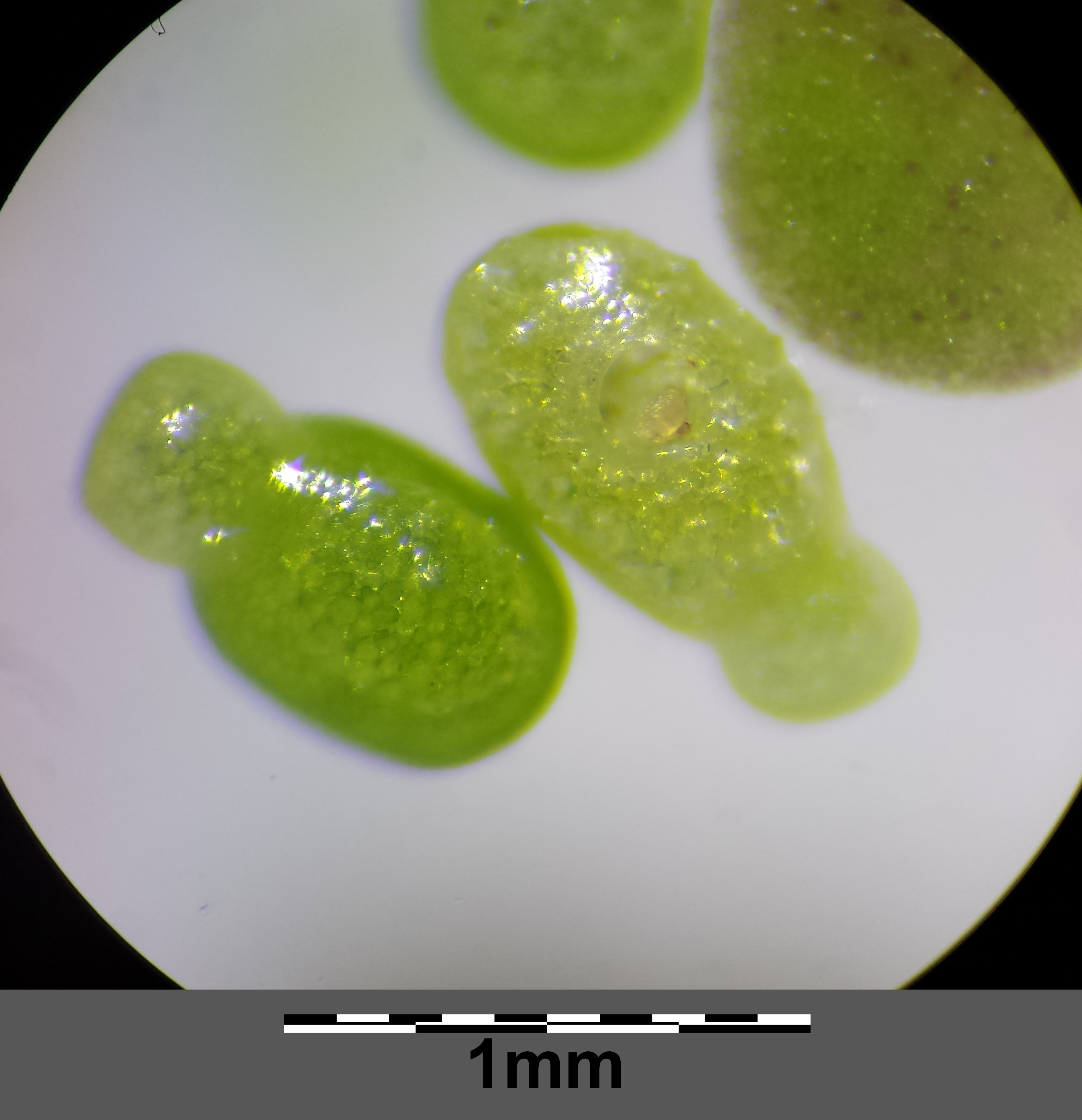 Habitusm on the right blooming Taxonym: Wolffia columbiana ss Fischer et al. EfÖLS 2008 ISBN 978-3-85474-187-9 Location: Laimergrube in Stammersdorf, Vienna-Floridsdorf - ca. 160 m a.s.l. Habitat: pond